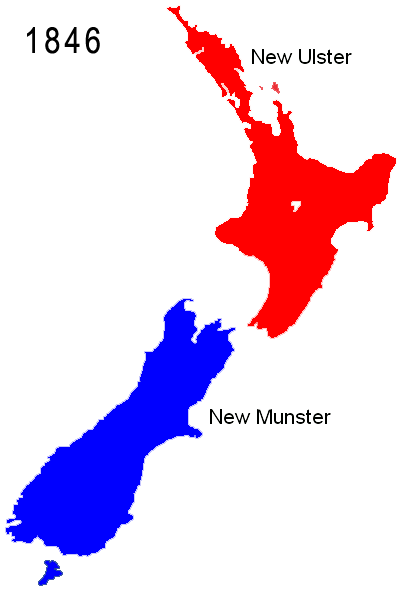 Map of Provinces of New Zealand in 1846